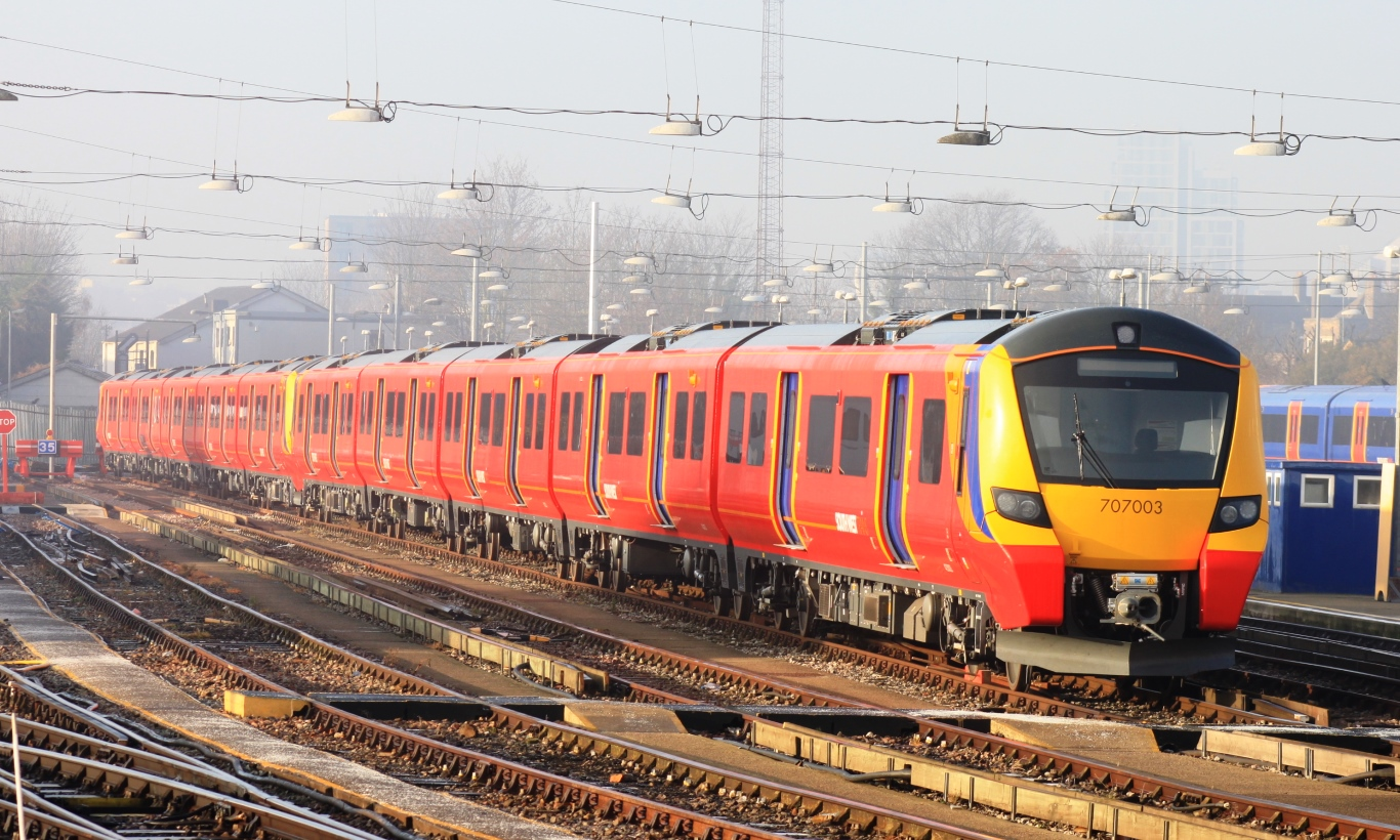 Two new South West Trains class 707 five-car electric multiple units stand in the carriage sidings at Clapham Junction. 707003 is nearest the camera.